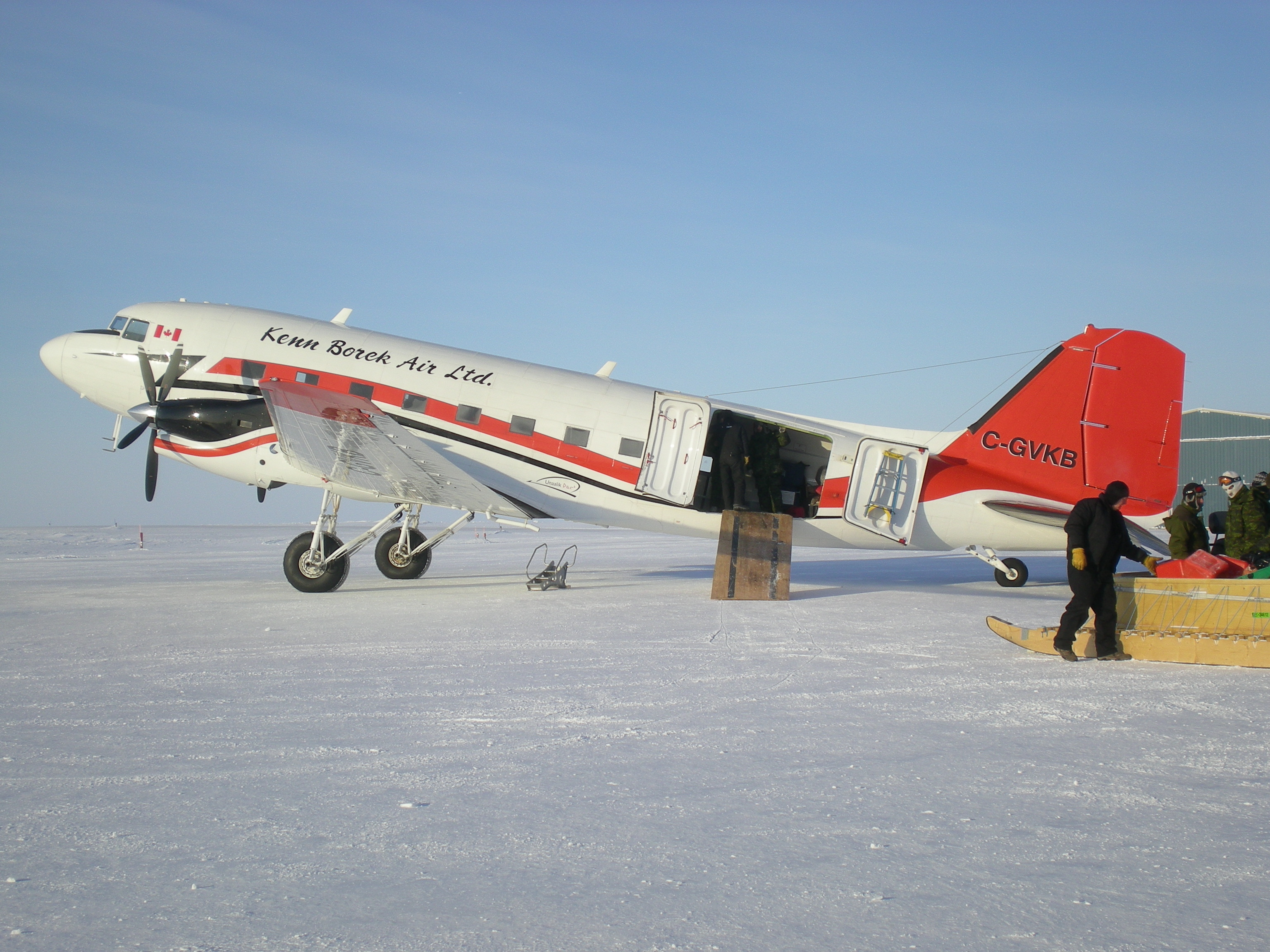 Kenn Borek DC3 C-GVKB loading Canadian Forces at Cambridge Bay